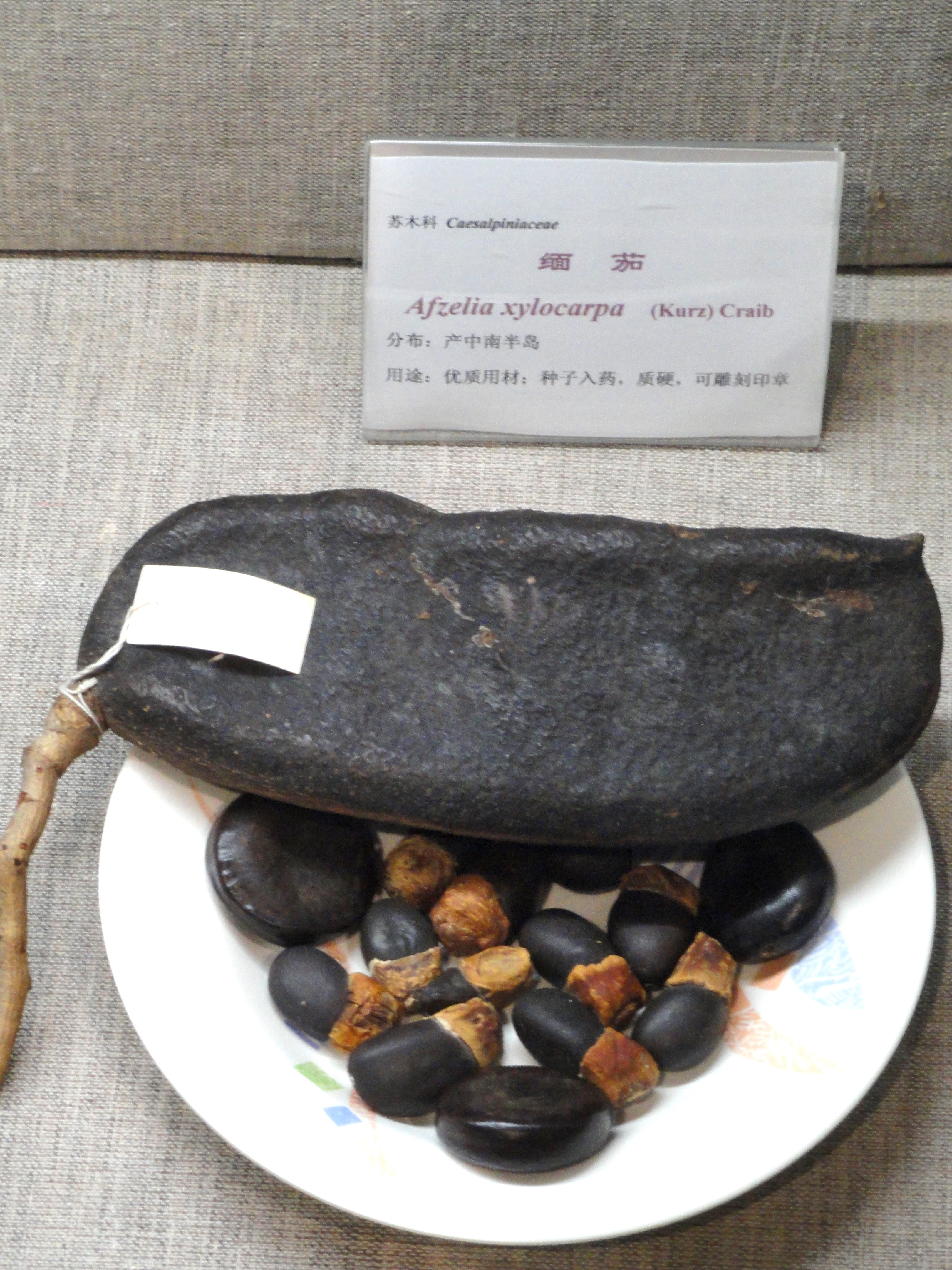 Seeds exhibited in the Kunming Botanical Garden, Kunming, Yunnan, China.